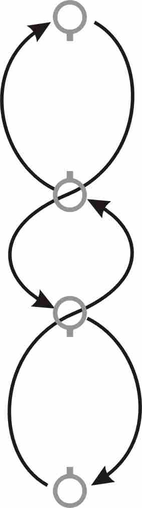 Tanzfigur: Reel of four